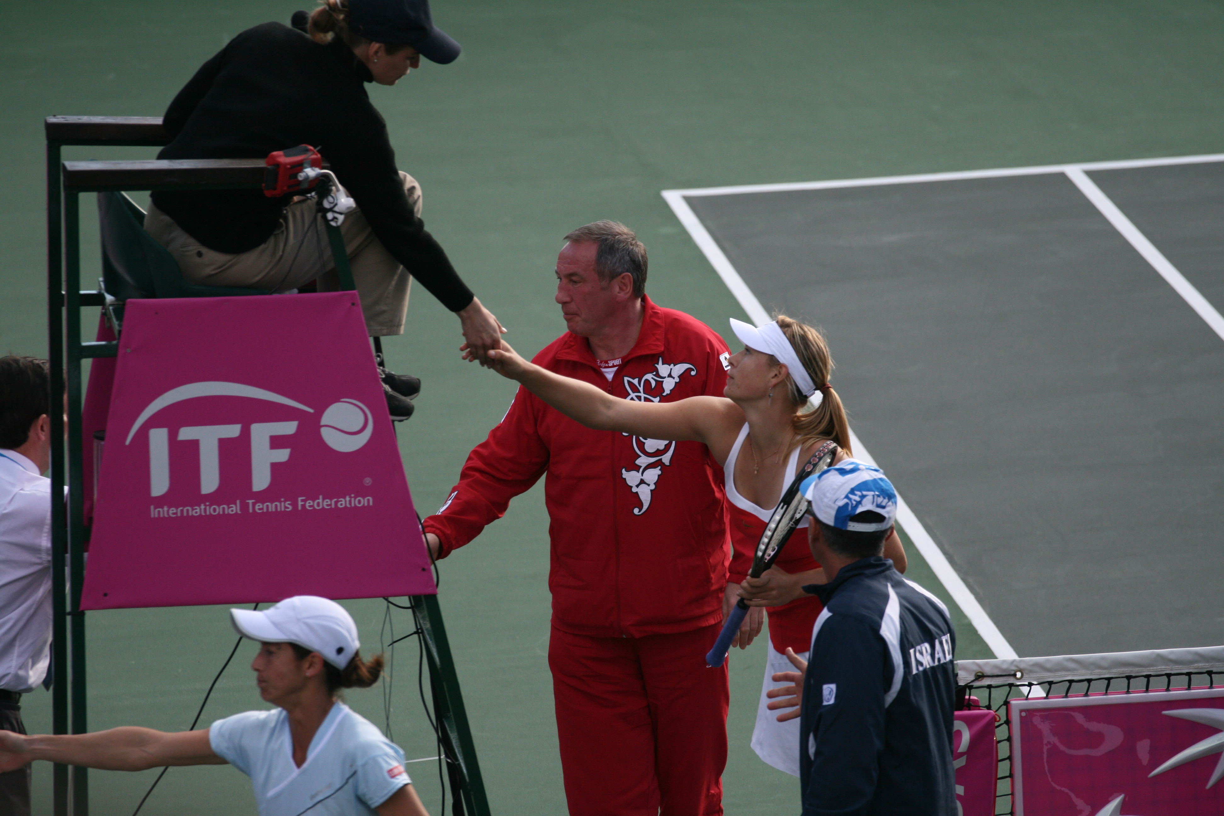 Shamil Tarpischev and Maria Sharapova. Fed Cup Match vs Israel.